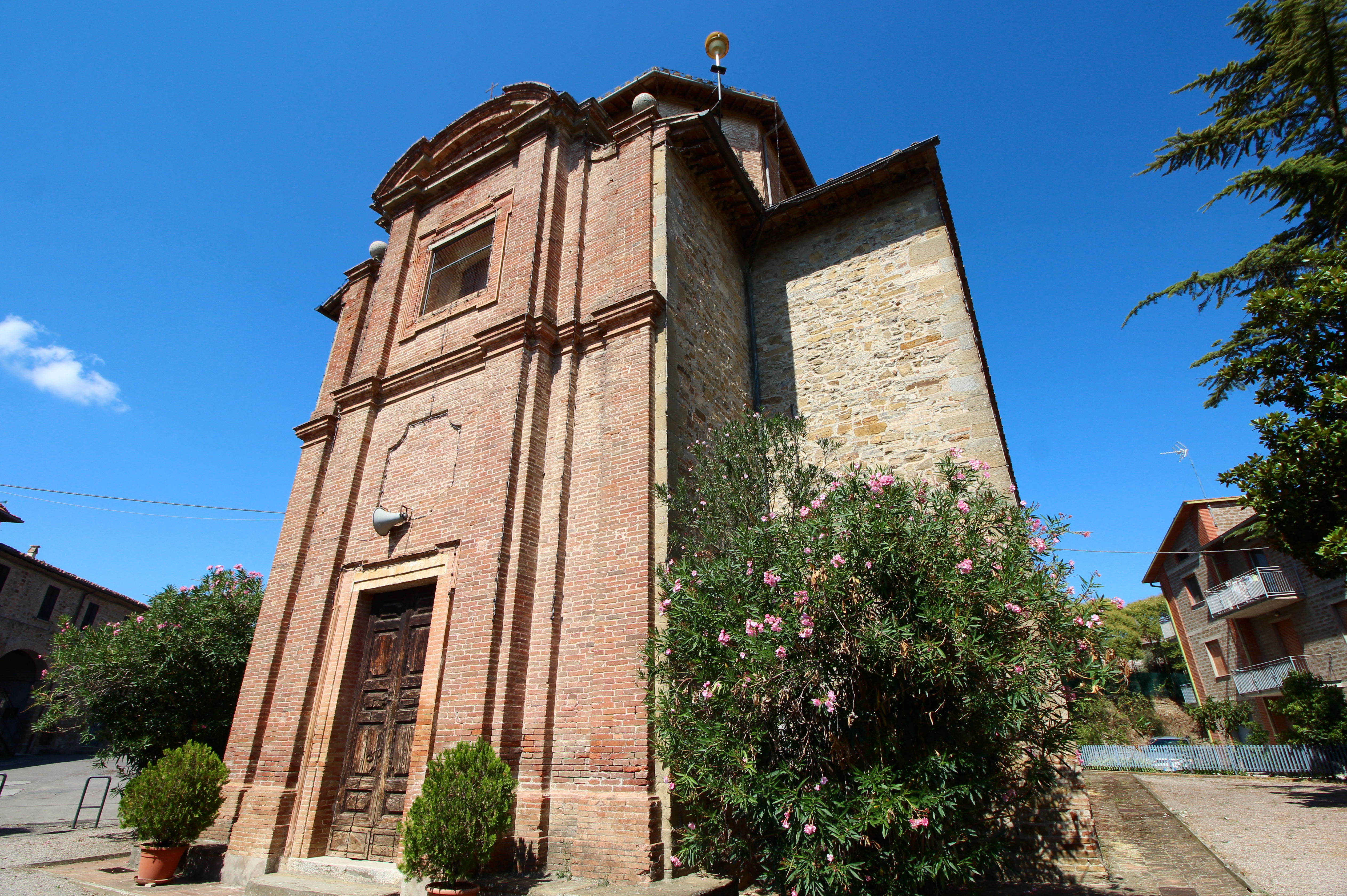 Church Madonna del Soccorso, Soccorso, hamlet of Magione, Province of Perugia, Umbria, Italy